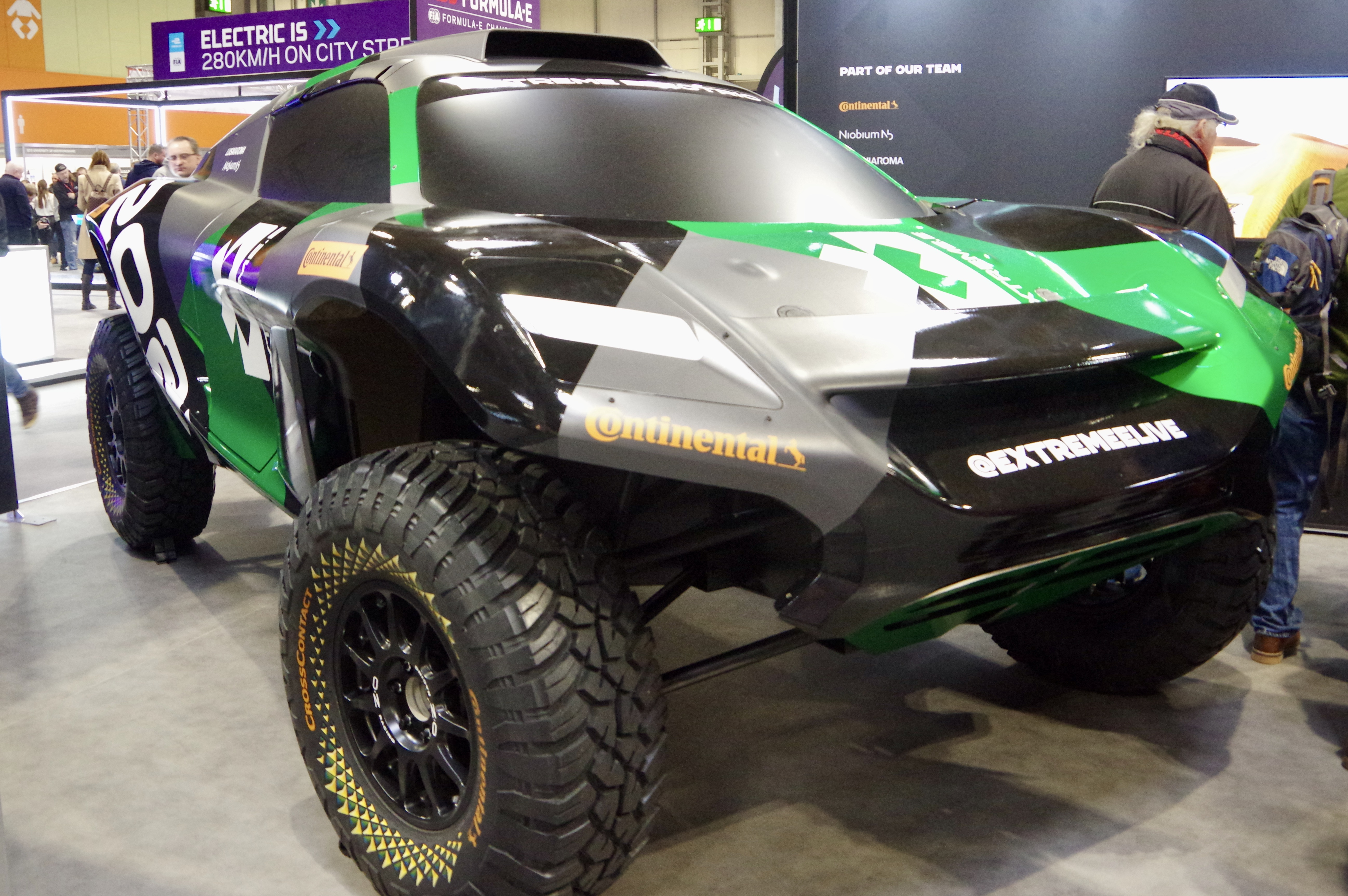 Autosport International Racing Car Show 2020, Extreme E car.